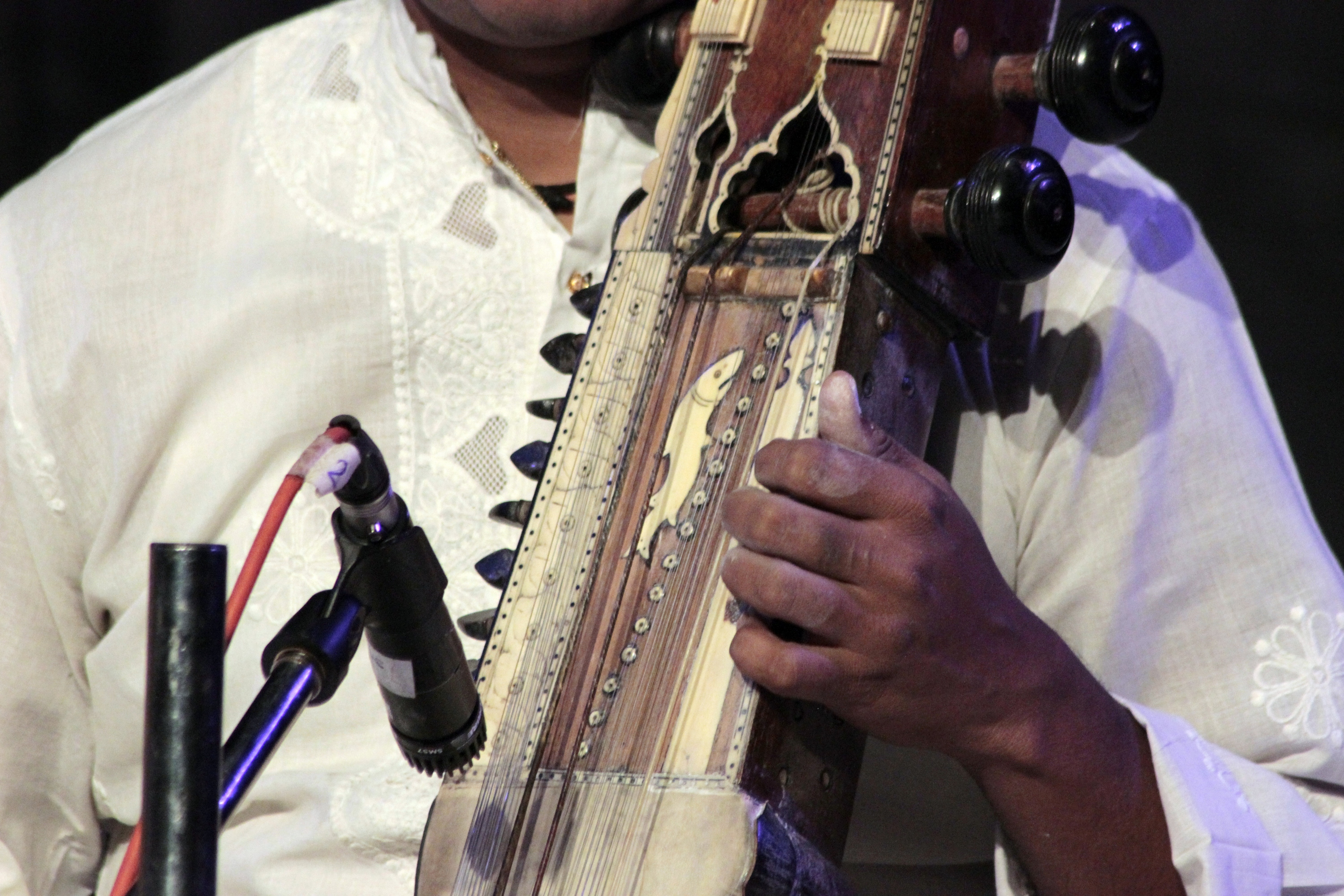 Sarngi Player in India